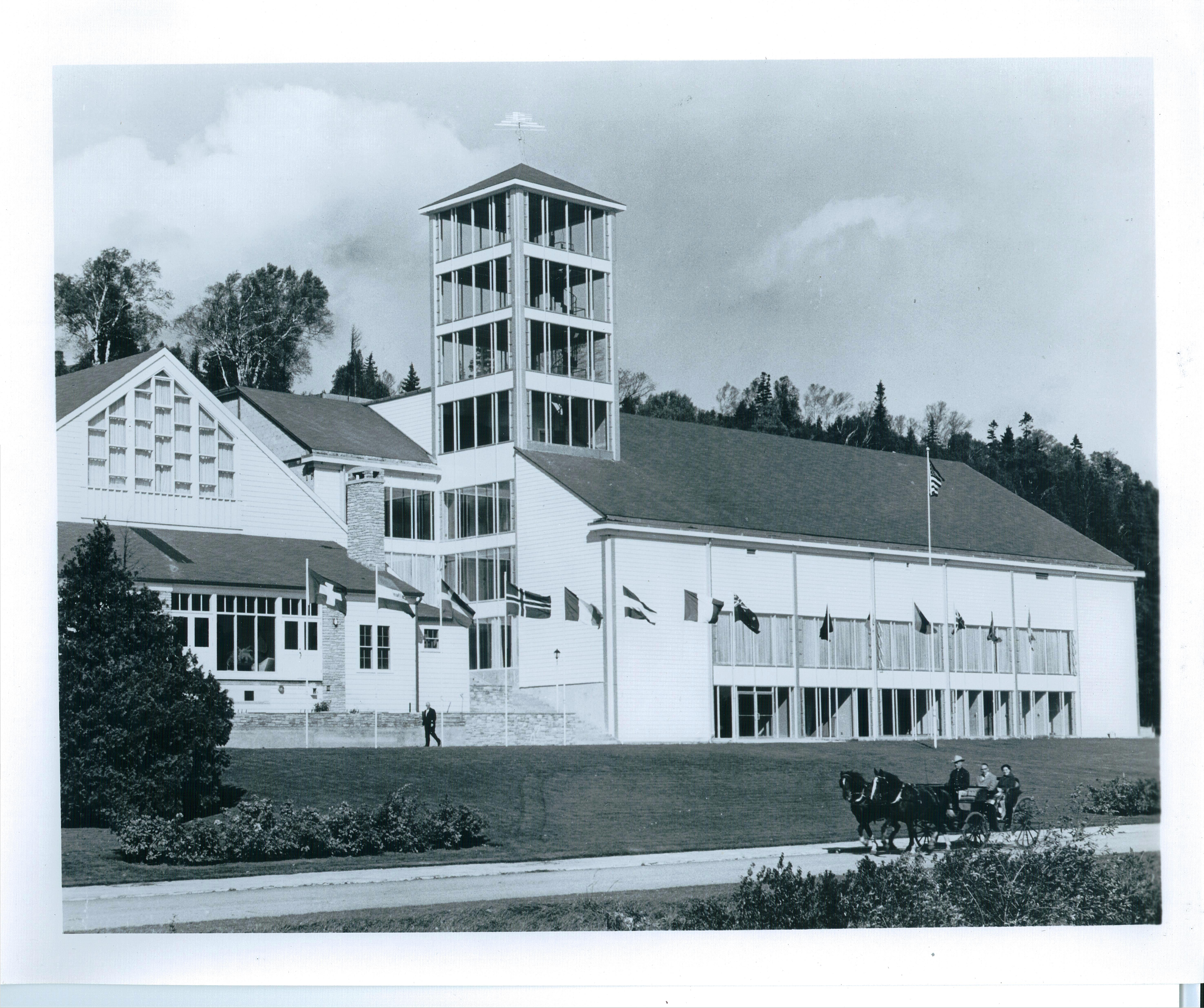 Construction of the Mission Point Film Studio and Fine Arts Building was completed on Mackinac Island, MI in 1960. It has been used in filming several films (including Somewhere in Time), as a performance studio, and as a gymnasium. The studio tower houses the Mission Point historical museum.